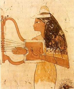 Egyptian cithara